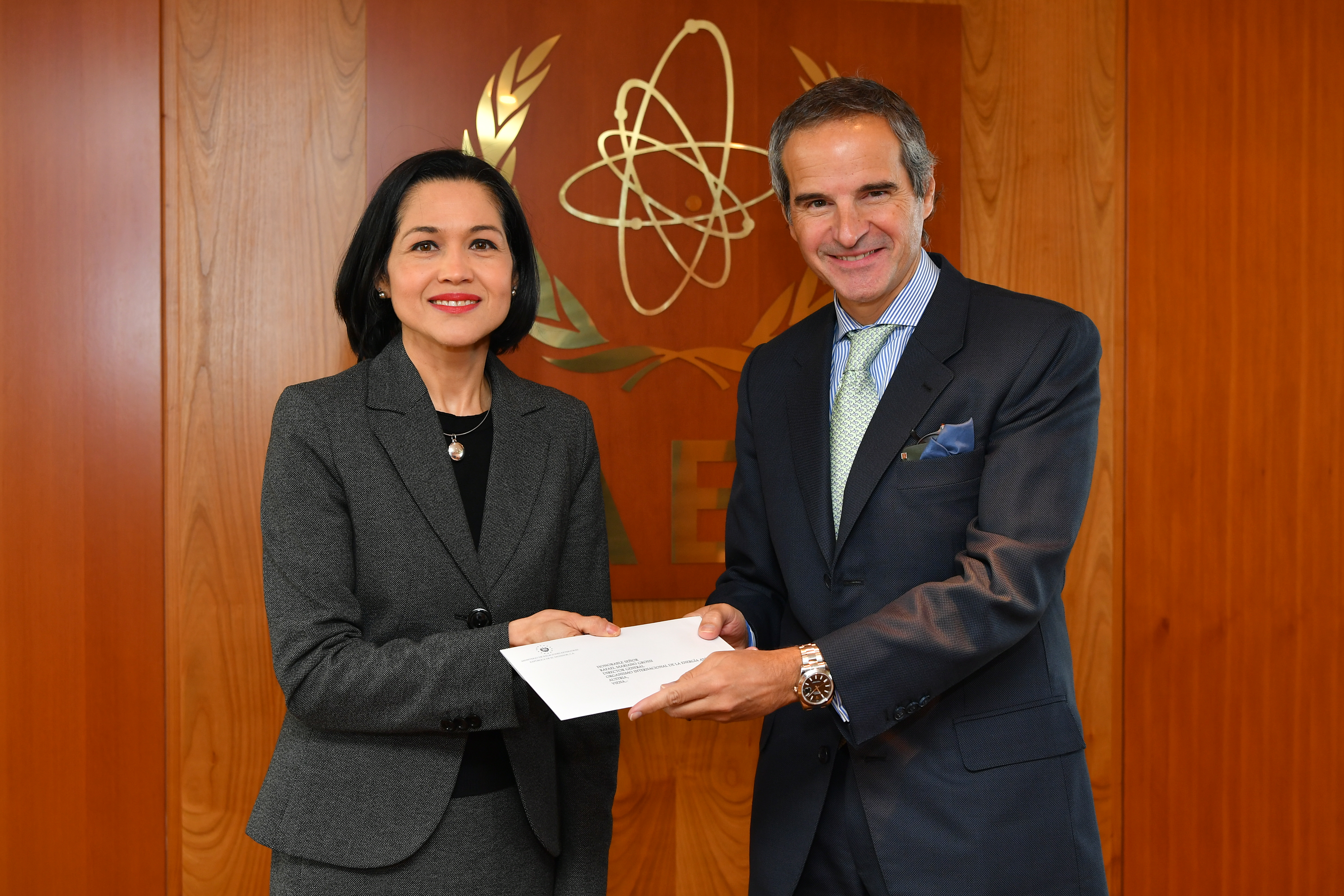 The new Resident Representative of El Salvador to the IAEA, HE Ms. Julia Emma Villatoro Tario, presented her credentials to IAEA Director General Rafael Mariano Grossi at the Agency headquarters in Vienna, Austria, on 22 January 2020 Photo Credit: Dean Calma / IAEA